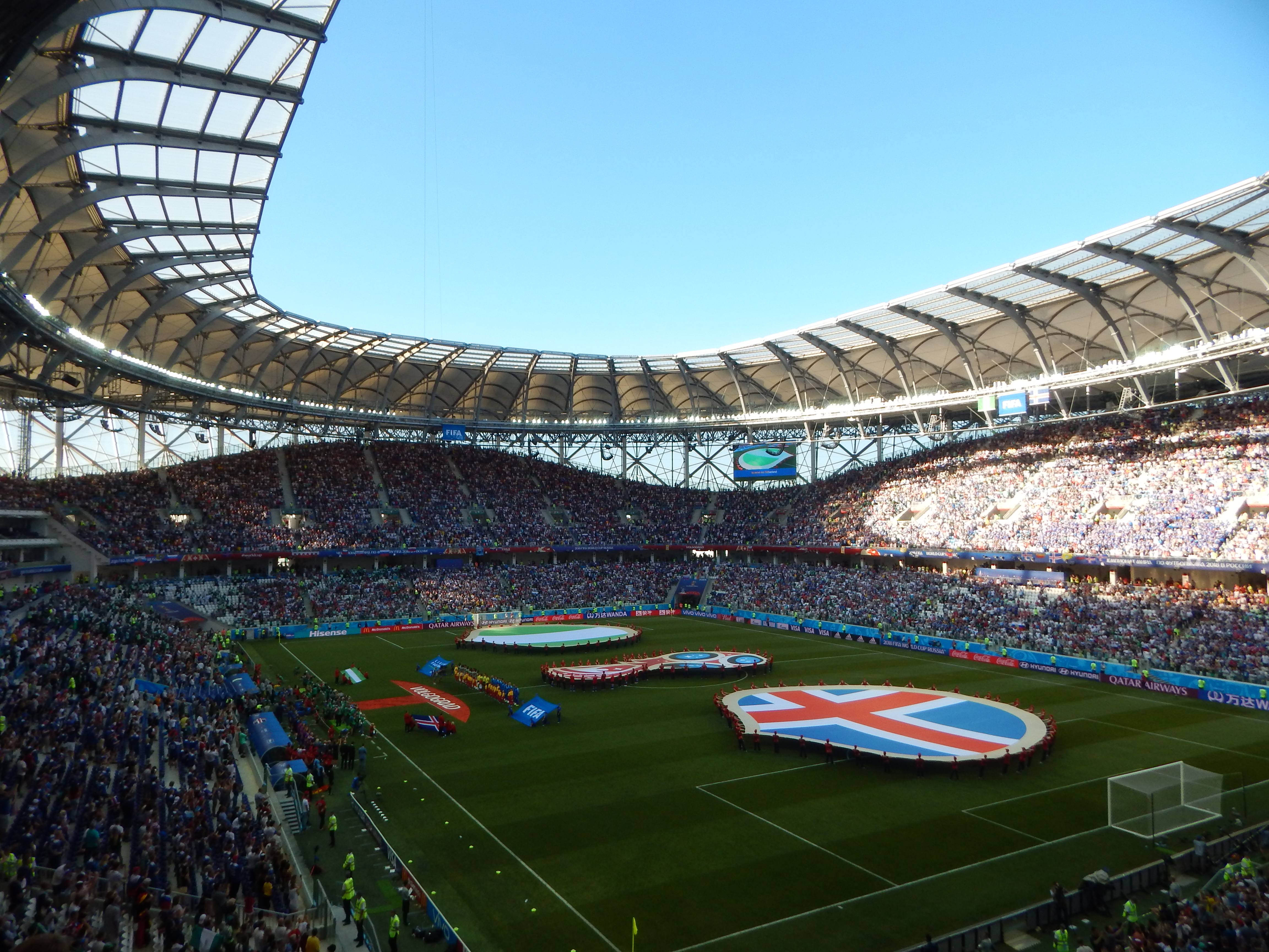 FIFA World Cup 2018, Group D, Nigeria vs. Iceland